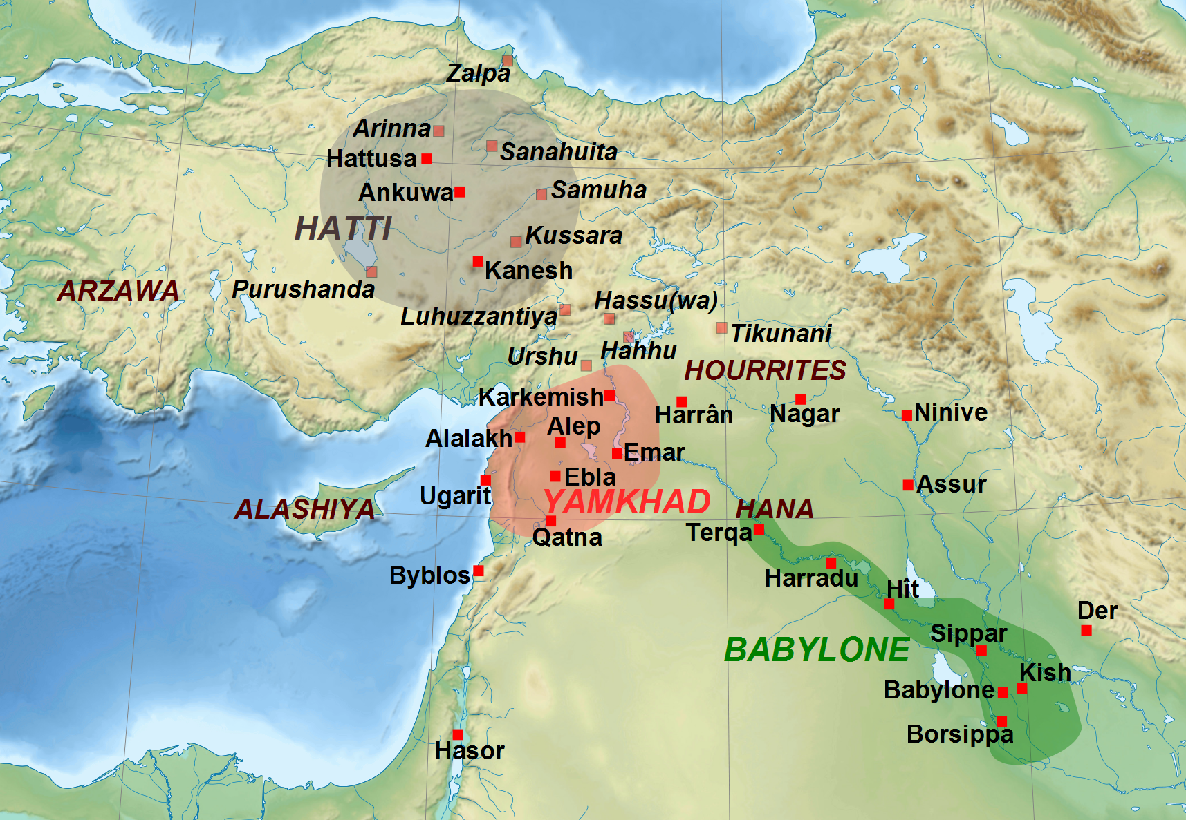 Map of the Middle East during the end of the Old Babylonian Period, c. 1600 BC. The location of sites which names are written in italic type and of the extension of the kingdoms are approximate.